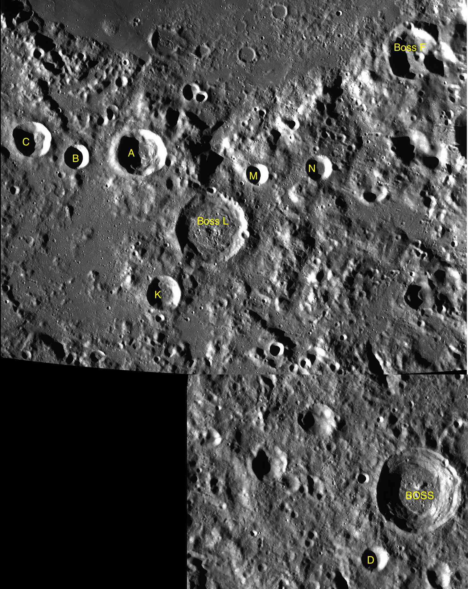 Part of the charts LAC-15, LAC-29 used for the presentation